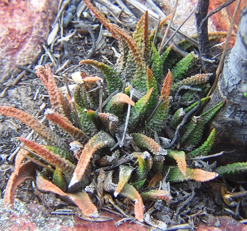 Haworthiopsis scabra (syn. Haworthia scabra) MBB Williamsburg